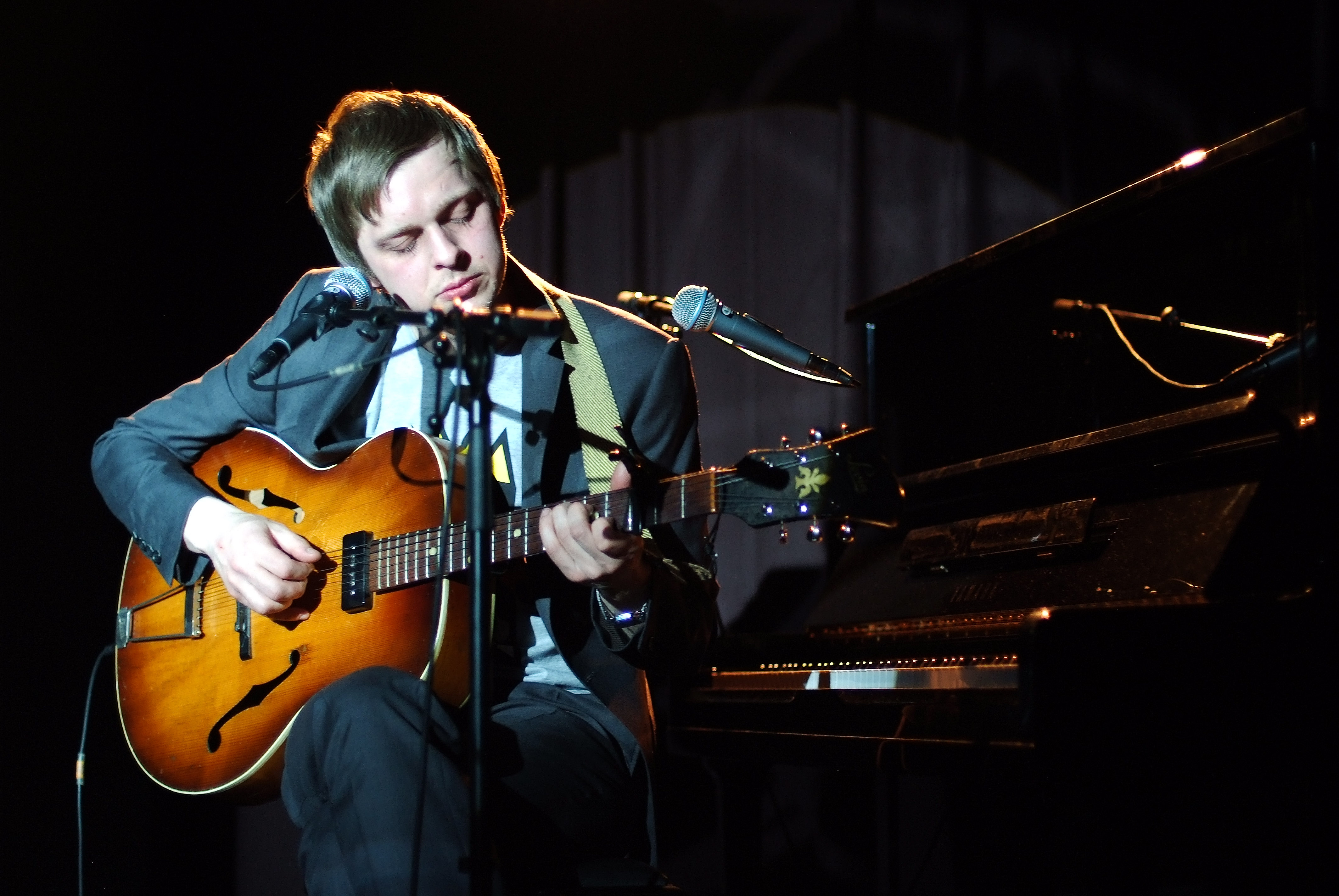 Teitur Lassen, Faroese singer/songwriter at a concert in Nordatlantens Brygge, Copenhagen